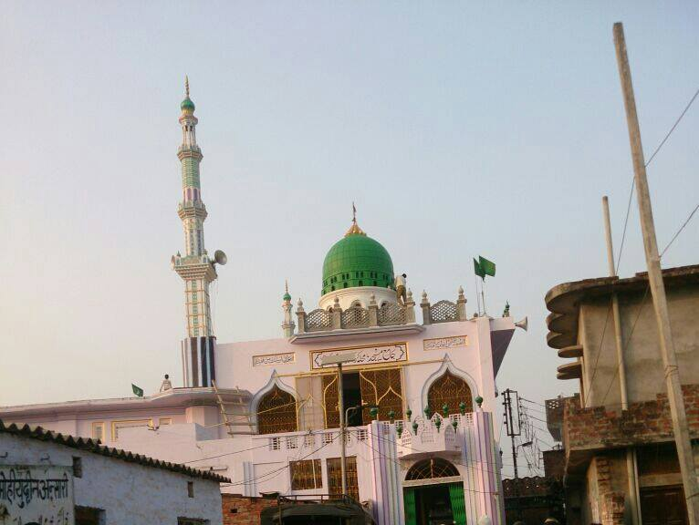 Grand Mosque of Ghosi name Jama Masjid soon century will be cross, 2012 IMAM Maulana Mobarak 2019 IMAM Maulana Ghulam Rasool All time Jummah Hazrat Allama Maulana Maqsood Saheb Ashrafi Qibla Uploaded by Tabish Nizam